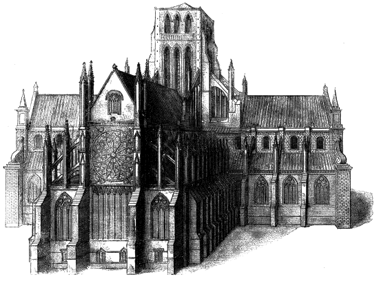 Old St. Paul's Cathedral from the East